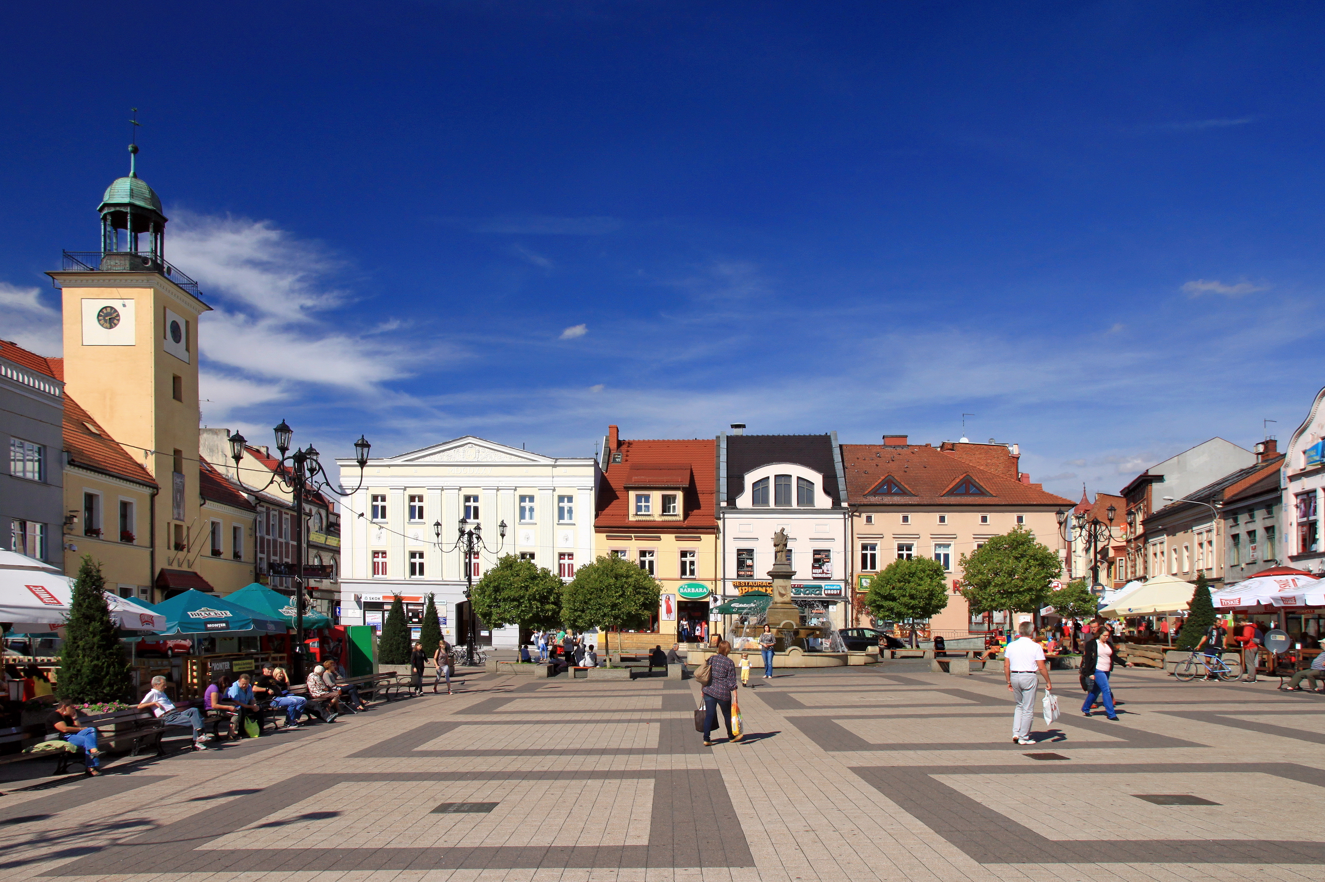 Market Square in Rybnik